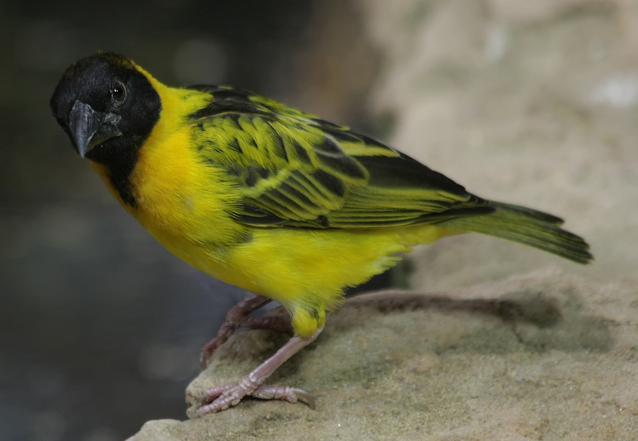 Vitelline Masked Weaver (Textor vitellinus) of the family (Passeridae)